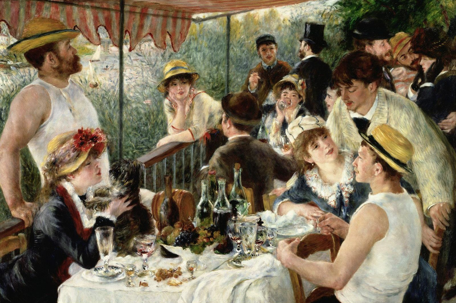 Pierre-Auguste Renoir: The Luncheon of the Boating Party, 1881, Phillips Collection, Washington.